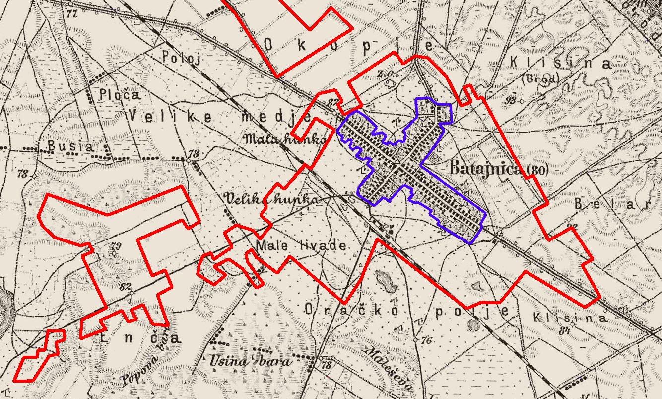 Expansion of urban areas around Batajnica in the last 100 years